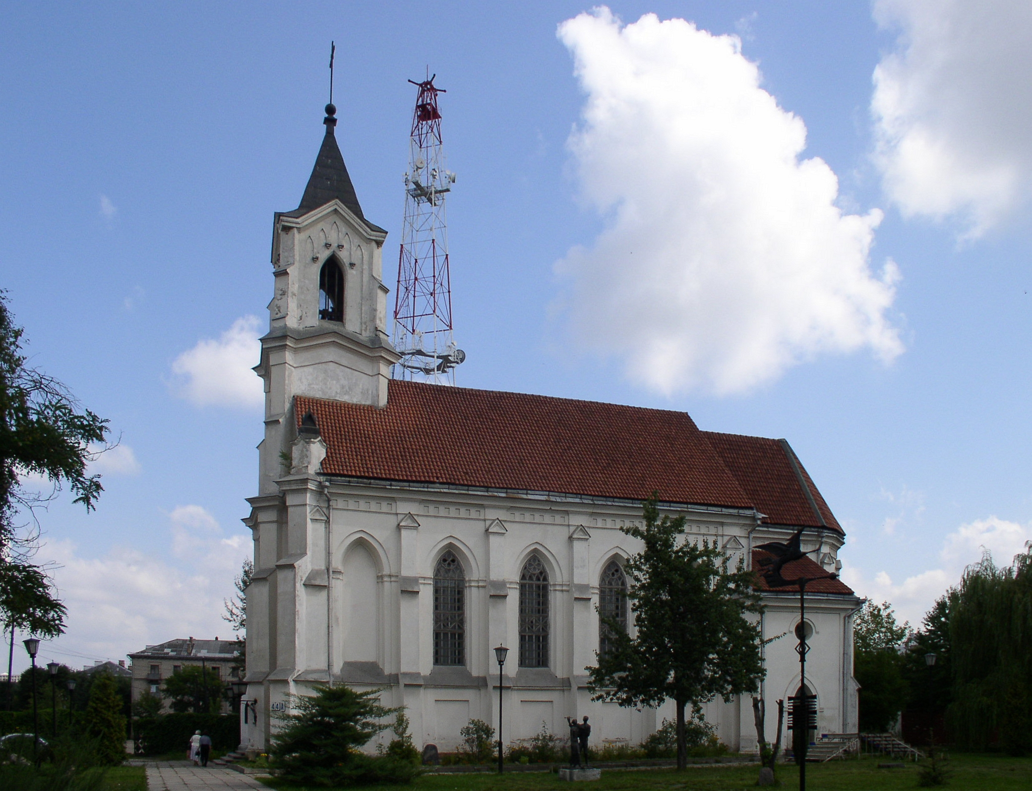 Church of Holy Trinity (Saint Roh). Minsk, Belarus.